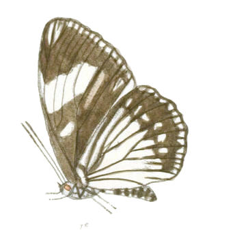 Euripus halitherses